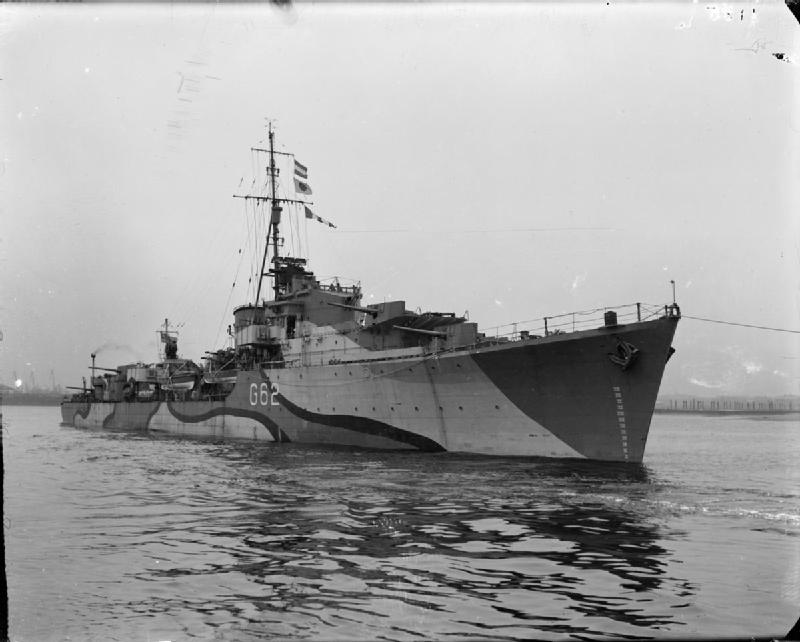 Photograph of British destroyer HMS Quality.